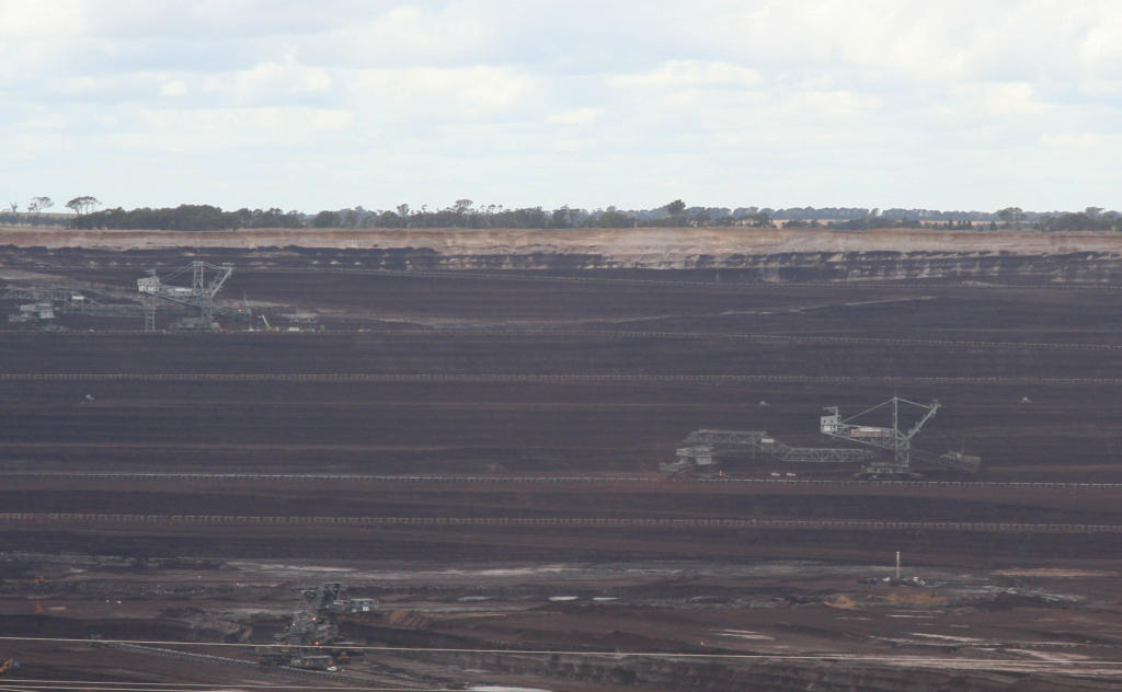 Open cut brown coal mine for the Loy Yang Power Station, Victoria, Australia. Two large dredges working coal face, and smaller unit on the mine floor.